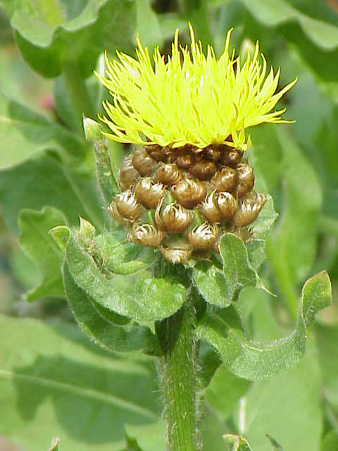 Species: Centaurea macrocephala Family: Asteraceae Image No. 1